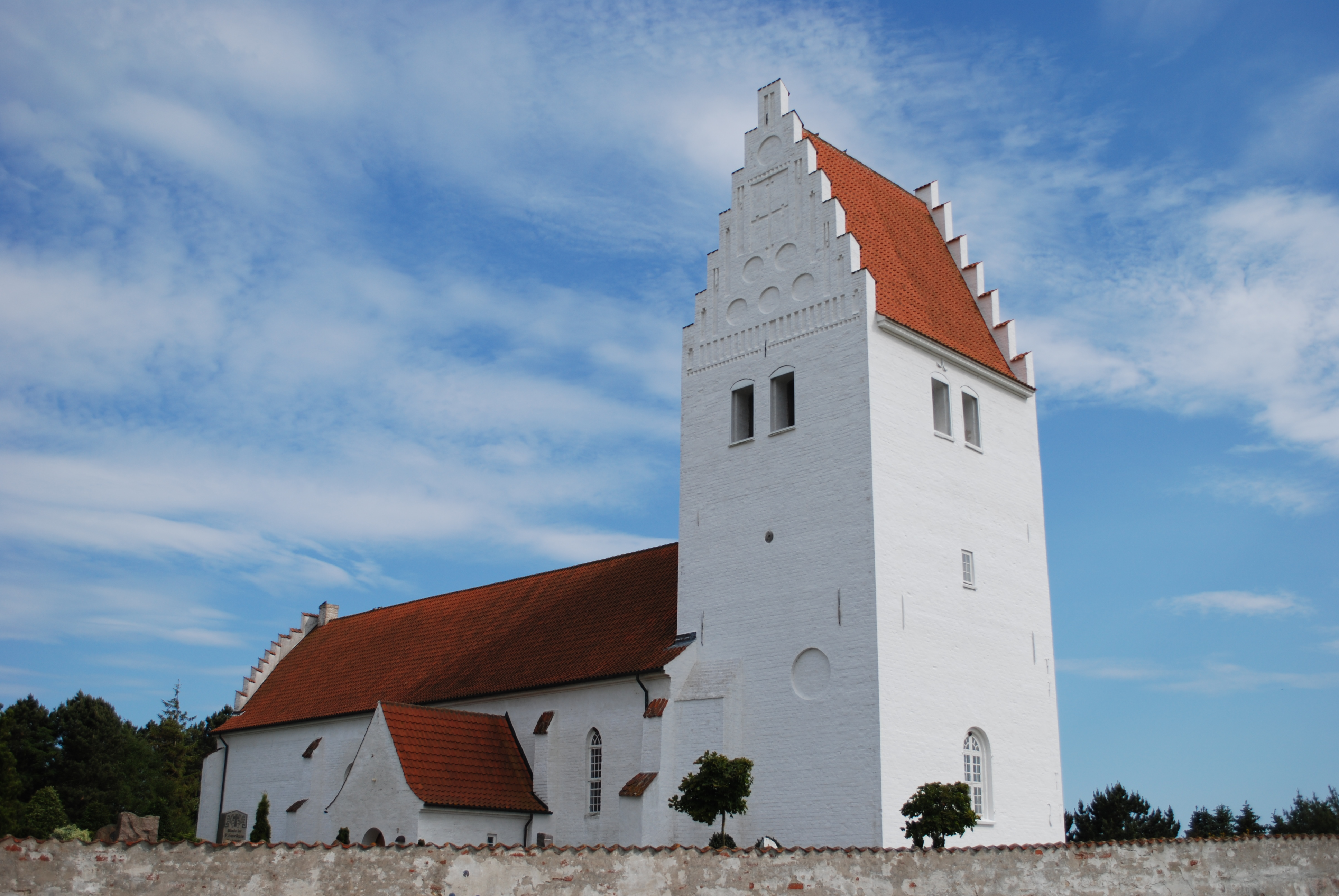 Church of Fanefjord, Island Møn, Denmark